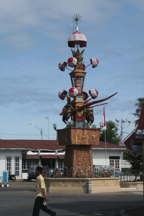 Tabuik in the centre of Pariaman, West-Sumatra.